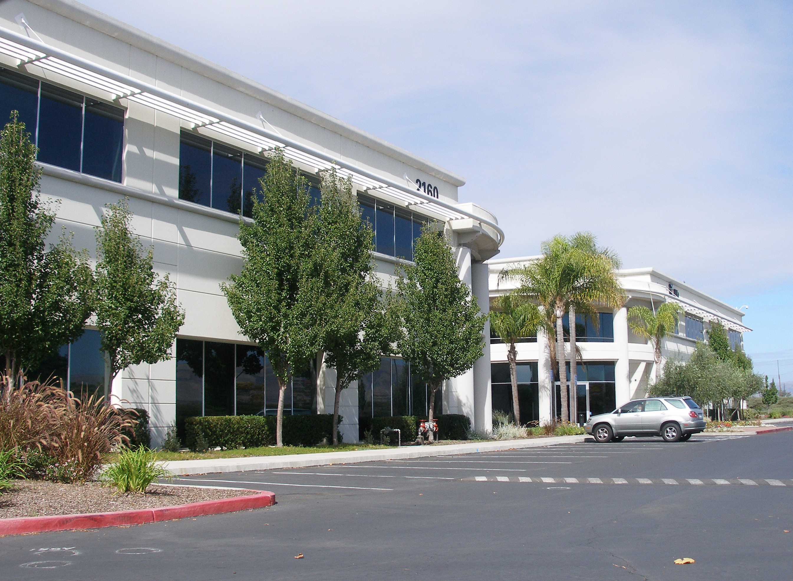 TiVo headquarters in Alviso.